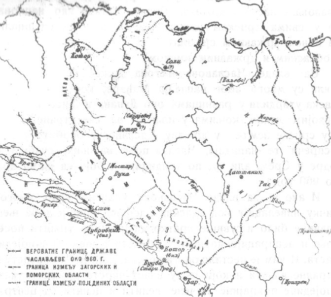 Časlav's Serbia, map by Stanoje Stanojević (1874–1937)